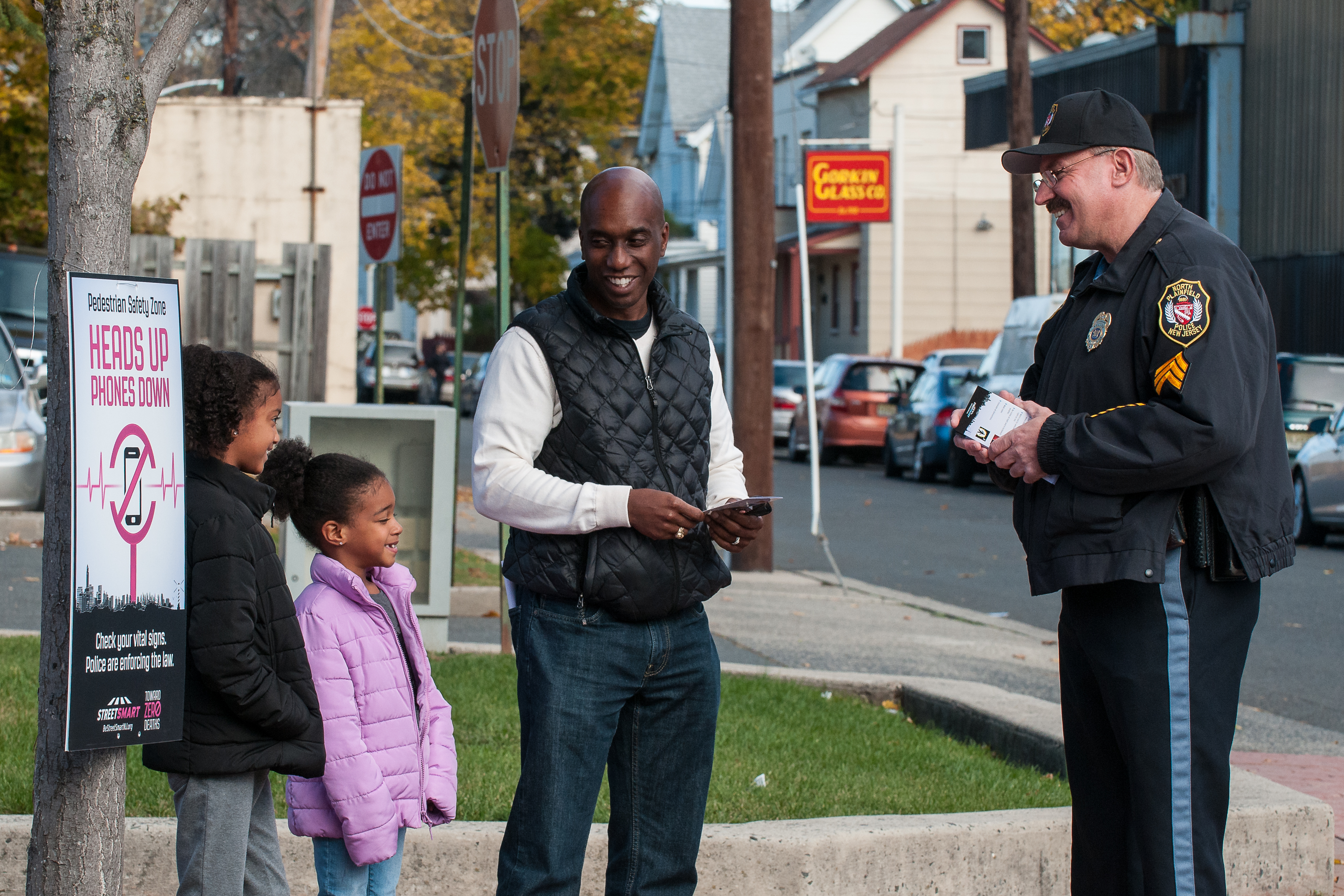 Street Smart NJ, a pedestrian safety campaign coordinated by the NJTPA, works to raise awareness of pedestrian and motorist laws and change behaviors.